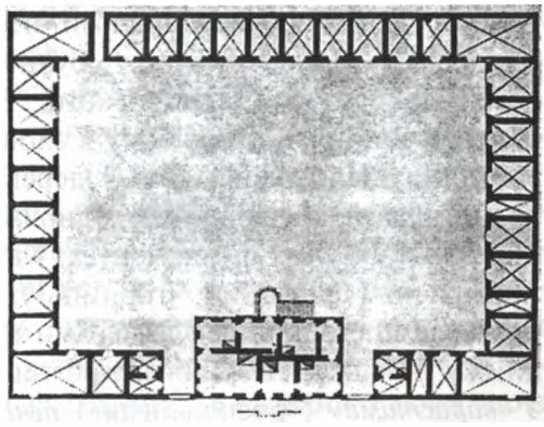 Old Kyiv seating yard plan